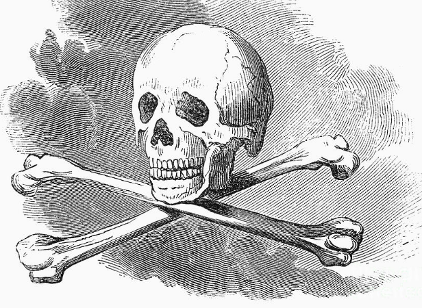 bones and skull image